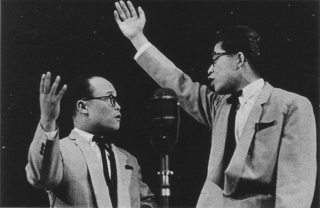 "Shishi Ten'ya and Seto Wan'ya" (Japanese Manzai performers).